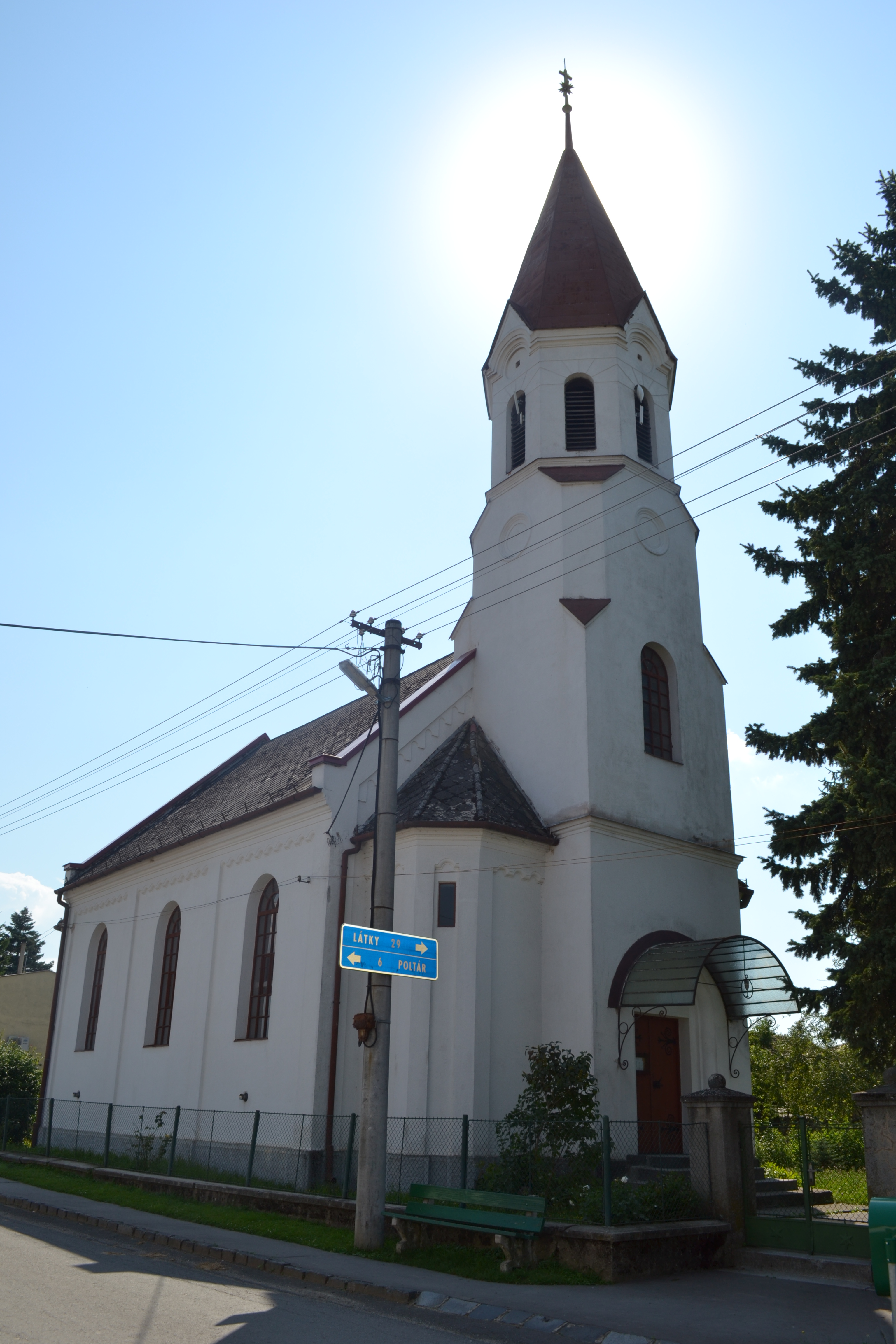 Rovňany - Evangelical church dedicated to St. LadislavSlovenčina: Evanjelický kostol zasvätený sv. Ladislavovi v Rovňanoch.